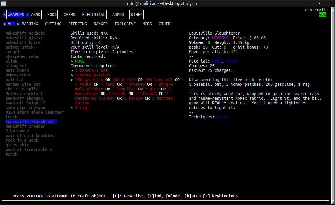 Crafting Menu from Cataclysm: DDA